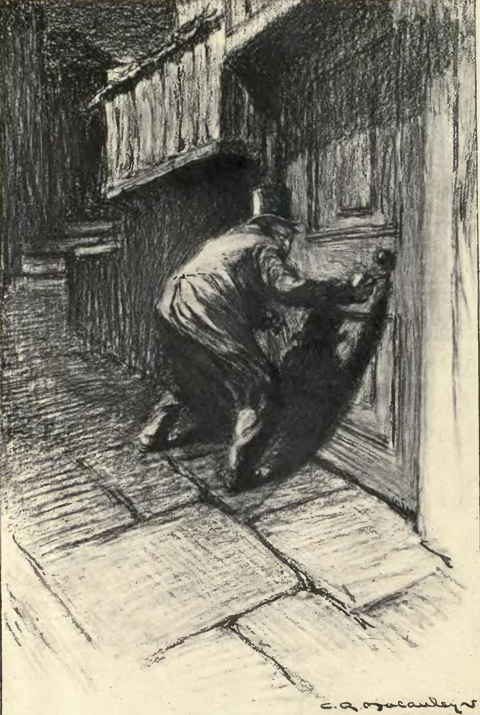 Artwork by Charles Raymond Macauley for the 1904 edition of The strange case of Dr. Jekyll and Mr. Hyde by Robert Louis Stevenson. Publisher: New York Scott-Thaw